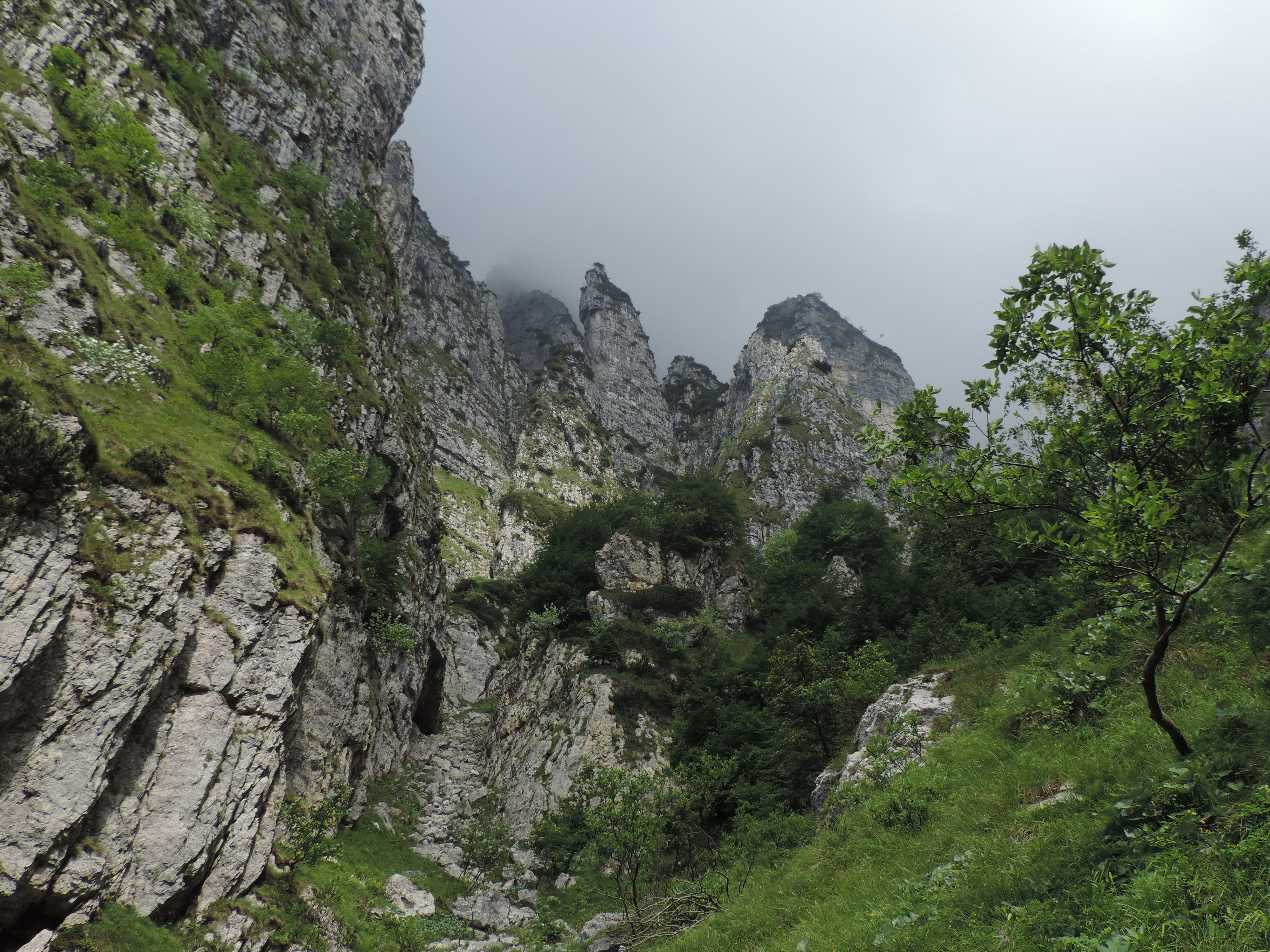 Monte Pasubio, Val Fontana d'Oro, 1 July 2016